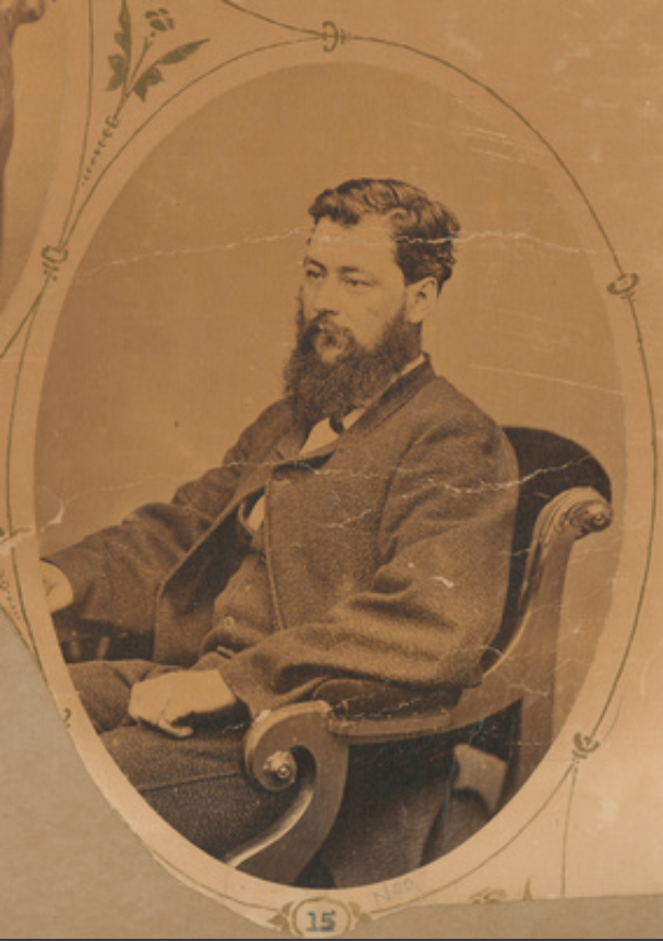 H. D. (Harrison Daniel) Packard (1838-1874) was a surveyor in South Australia and the Northern Territory